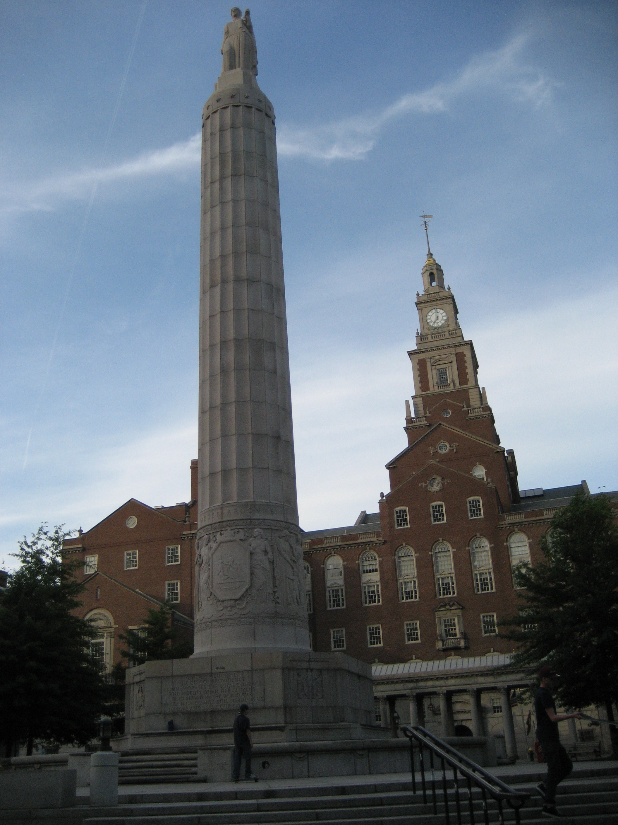 Providence, Rhode Island. World War I monument.